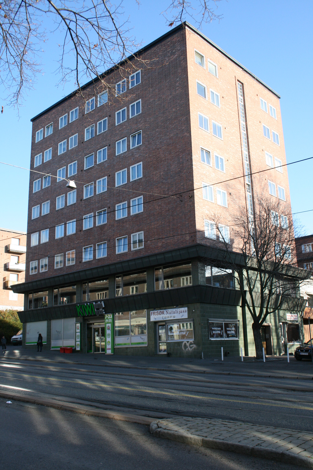 Trondheimsveien 163 in Oslo (former Sinsen cinema)